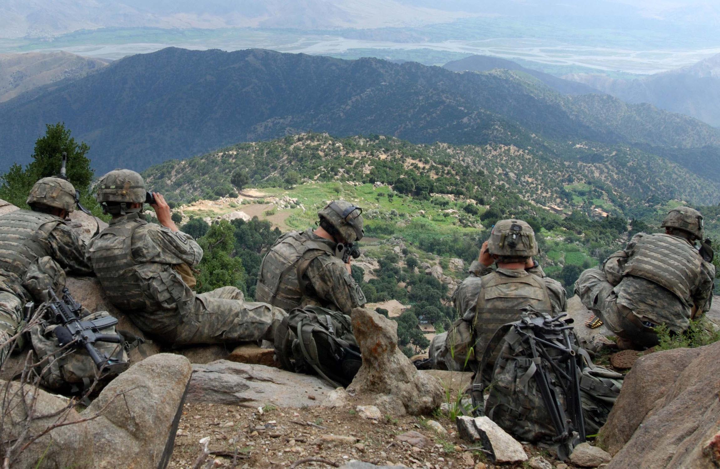 070822-A-6849A-667 -- Scouts from 2nd Battalion, 503rd Infantry Regiment (Airborne), pull overwatch during Operation Destined Strike while 2nd Platoon, Alpha Company searches a village below the Chowkay Valley in Kunar Province, Afghanistan Aug. 22.